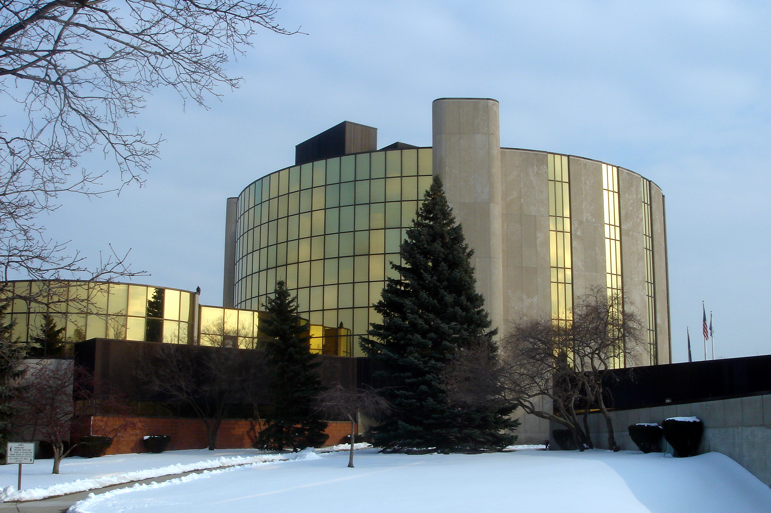 Livonia, City Hall